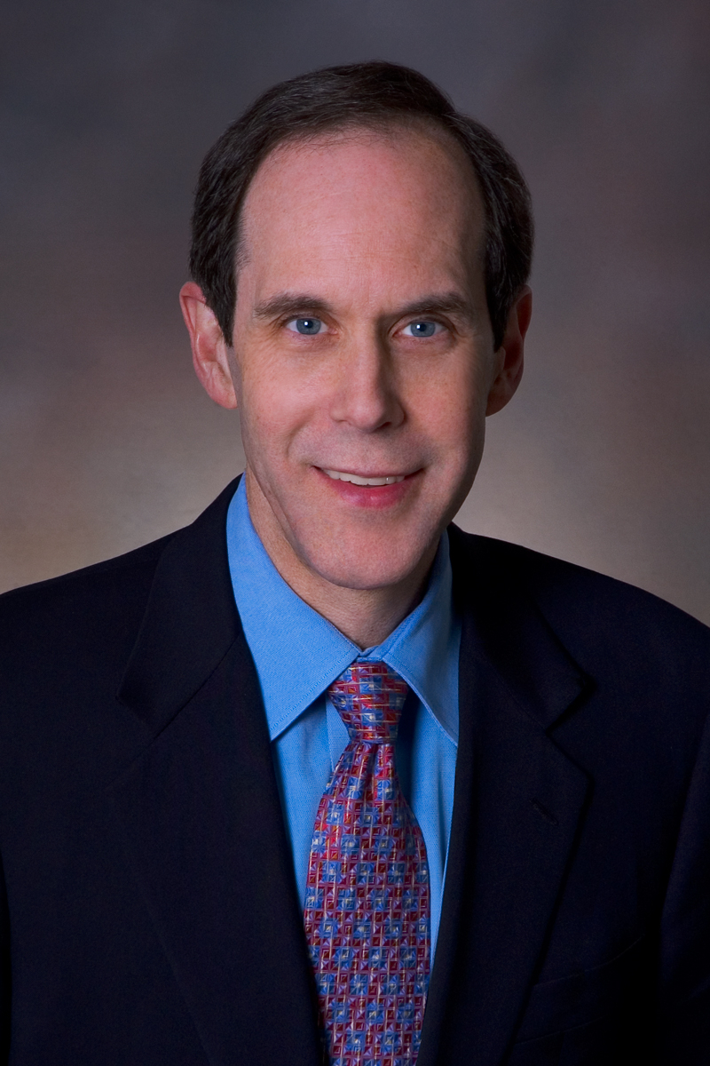 Photography of Brian Druker (Oregon Health & Science University)